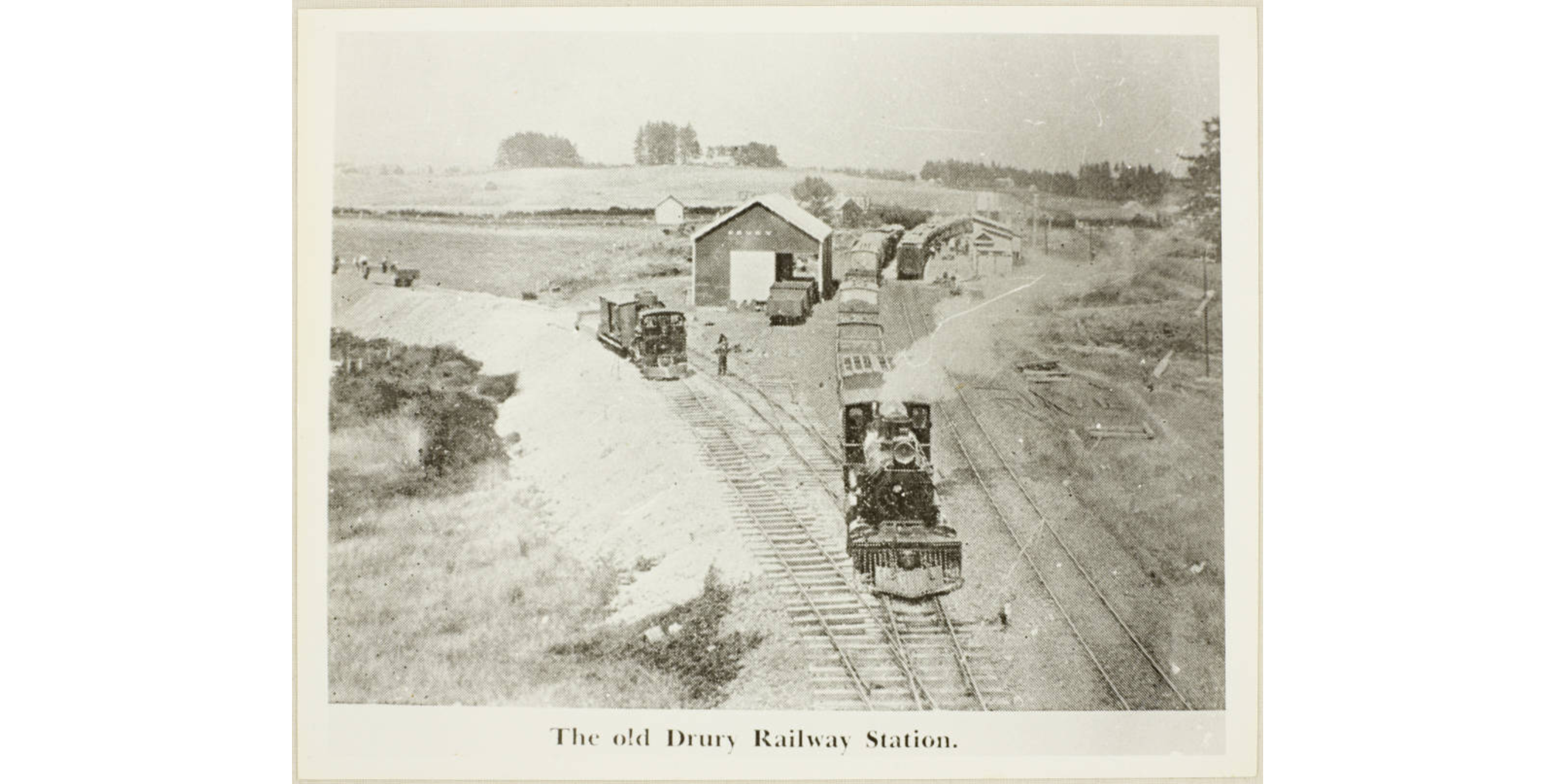 This is a copy of a photograph reproduced in the book, Drury School Centenary, 1857-1957, p. 8. It shows the original railway station building, which was opened on the site in 1875 and replaced in 1918. The engine to the right is steaming up the main trunk line; what appears to be the Drury Coal Company's private branch line, constructed in 1905 to serve its mine in the hills behind Drury, is to the left.